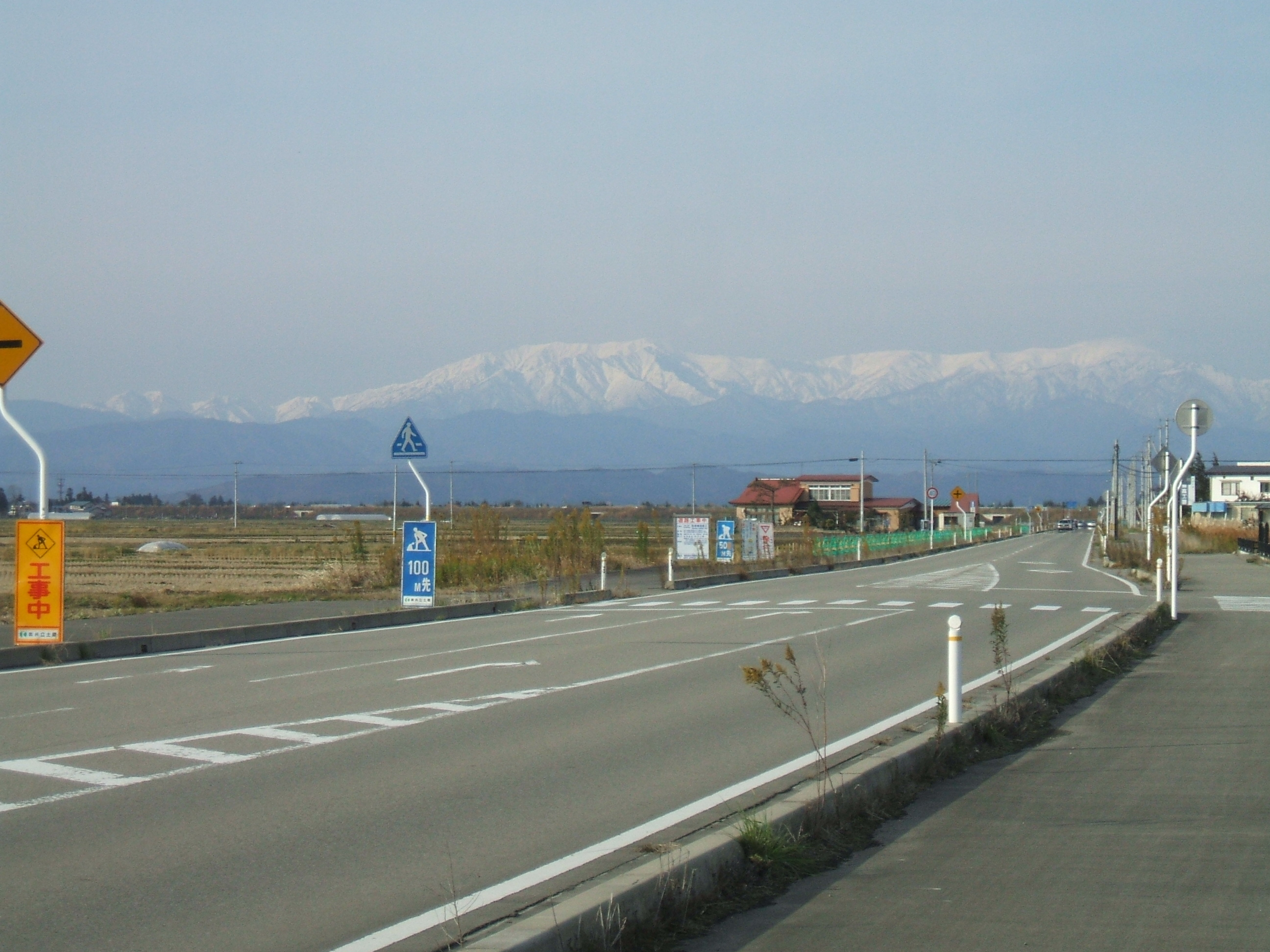 Landscape of Kounomachi town Kami-Kouno area. Kounomachi town if a part of Aizuwakamatsu City, Fukushima.